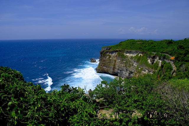 Pura Luhur Uluwatu is one of Bali's kayangan jagat (directional temples) and guards Bali from evil spirits from the SW, in which dwell major deities, in Uluwatu's case; Bhatara Rudra, God of the elements and of cosmic force majeures. Bali's most spectacular temples located high on a cliff top at the edge of a plateau 250 feet above the waves of the Indian Ocean. Uluwatu lies at the southern tip of Bali in Badung Regency. Dedicated to the spirits of the sea, the famous Pura Luhur Uluwatu temple is an architectural wonder in black coral rock, beautifully designed with spectacular views. This is a popular place to enjoy the sunset. Famous not only for its unique position, Uluwatu also boasts one of the oldest temples in Bali, Pura Uluwatu. Most of Bali's regencies have Pura Luhur (literally high temples or ascension temples) which become the focus for massive pilgrimages during three or five day odalan anniversaries. The photogenic Tanah Lot and the Bat Cave temple, Goa Lawah, is also Pura Luhur. Not all Pura Luhur are on the coast, however but all have inspiring locations, overlooking large bodies of water